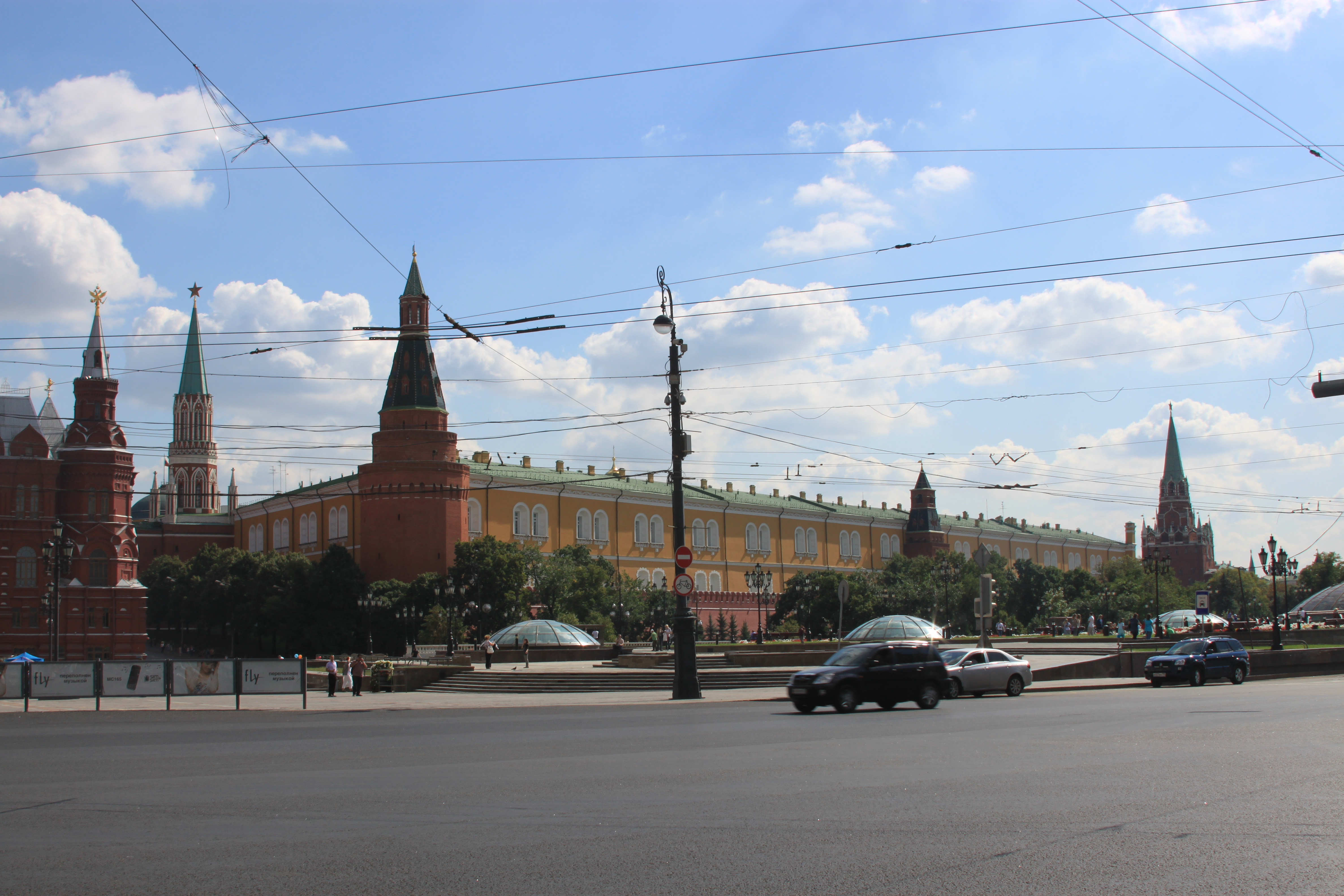 Russia, Moscow, Manezhnaya Square (ploshad / ploshchad), view to the Manezhnaya Square from Tverskaya street, Kremlin, Россия, Москва, Манежная площадь, Кремль, вид на манежную площадь со стороны пересечения улиц "Охотный ряд" и "Тверская"